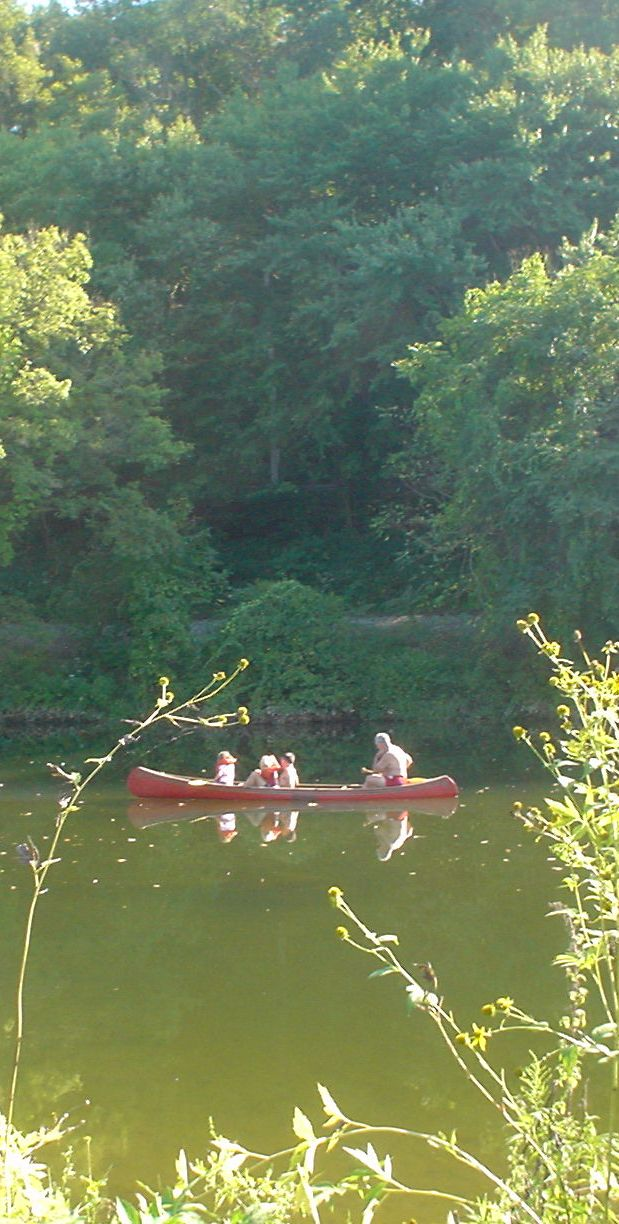 Canoeing on the Brandywine, near Pocopson, PA Labor Day, 2009